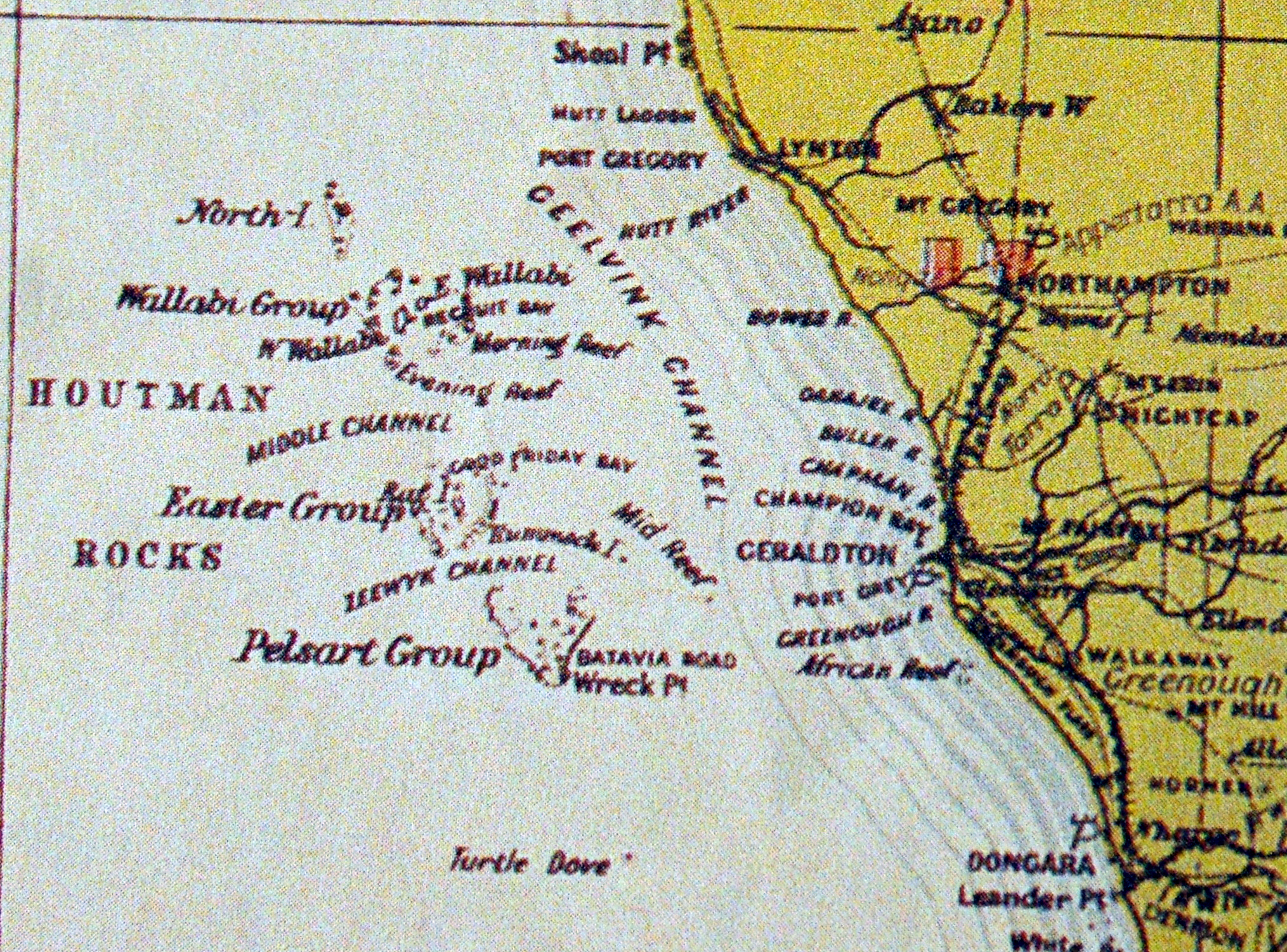 Houtman Rocks as found in the Map Map of Western Australia 1897 in private possession